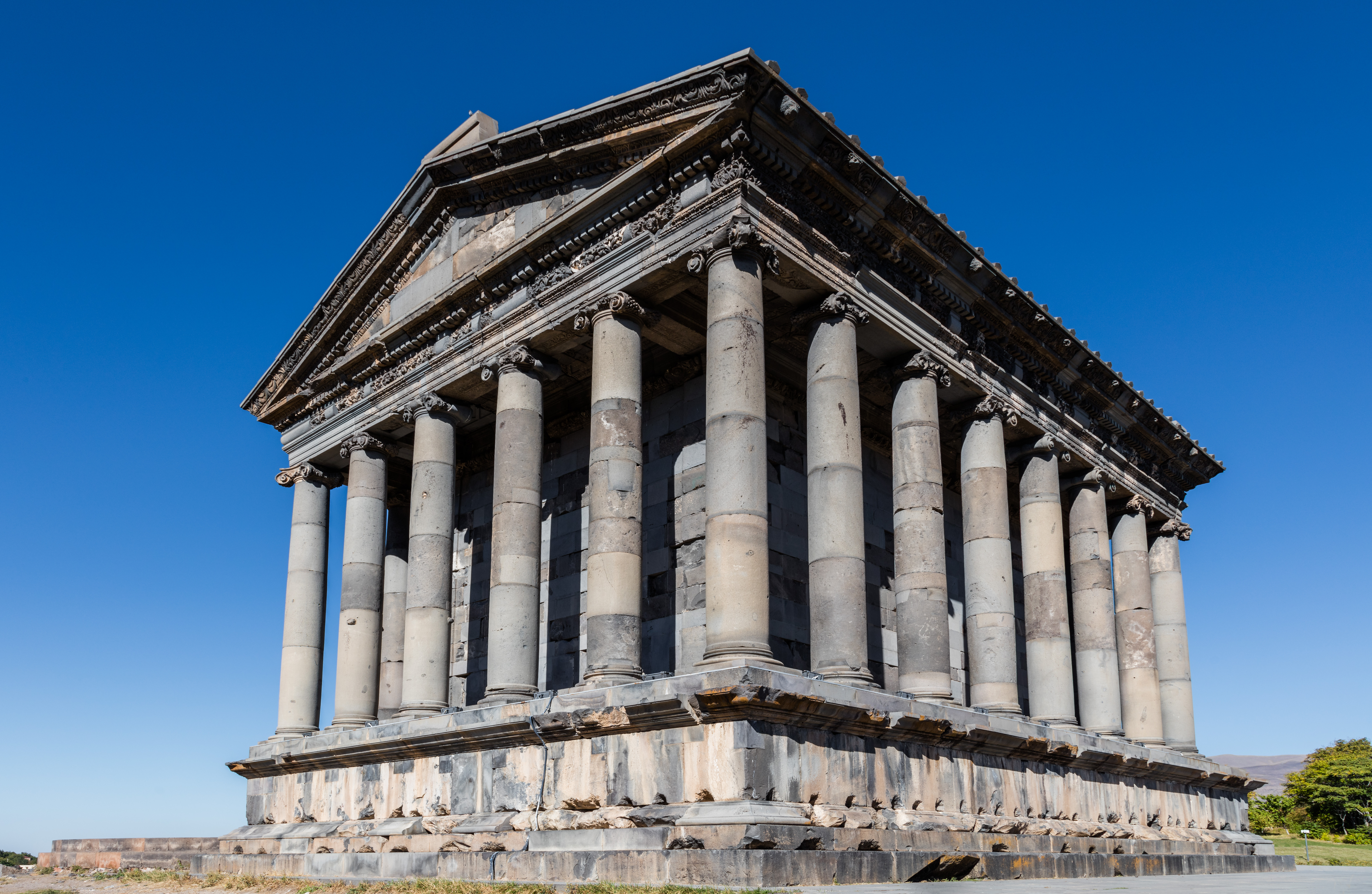 The Temple of Garni (lit. "pagan temple of Garni") is a classical Hellenistic temple in Garni, Armenia. It is perhaps the best-known structure and symbol of pre-Christian Armenia and was probably built by king Tiridates I in the first century AD as a temple to the sun god Mihr. According to some scholars it was not a temple but a tomb and thus survived the universal destruction of pagan structures. It collapsed in a 1679 earthquake and reconstructed between 1969 and 1975.